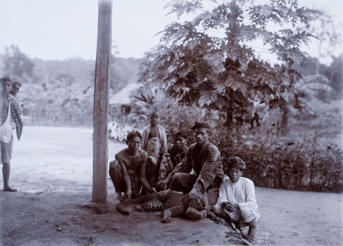 Group portrait with a recently shot panter